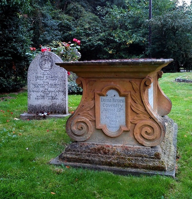 St Nicholas, Earls Croome, Worcs: The graves of the 11th Earl of Coventry (1934–2002) and of Charles John Coventry (1867–1929), second son of the 9th Earl